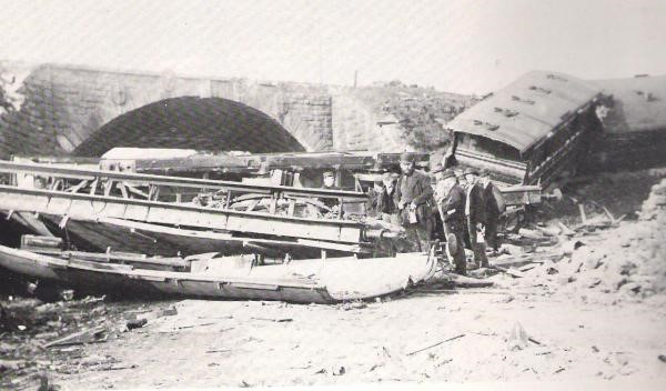 Penistone rail crash on 16 July 1884, South Yorkshire, England